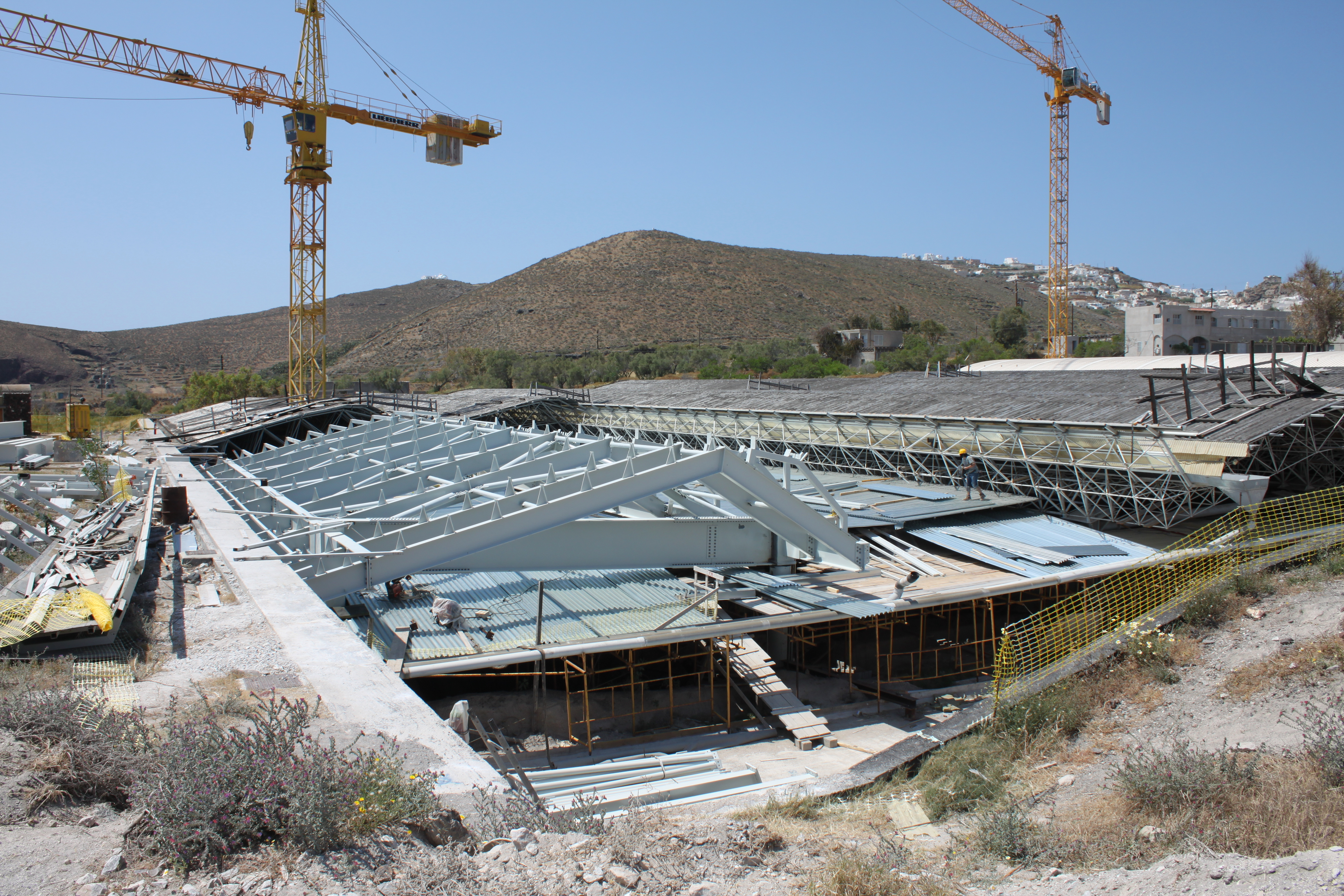 The Consortium which constructs the Shelter above the Prehistoric Site of Akrotiri showed big progress during April 2010.